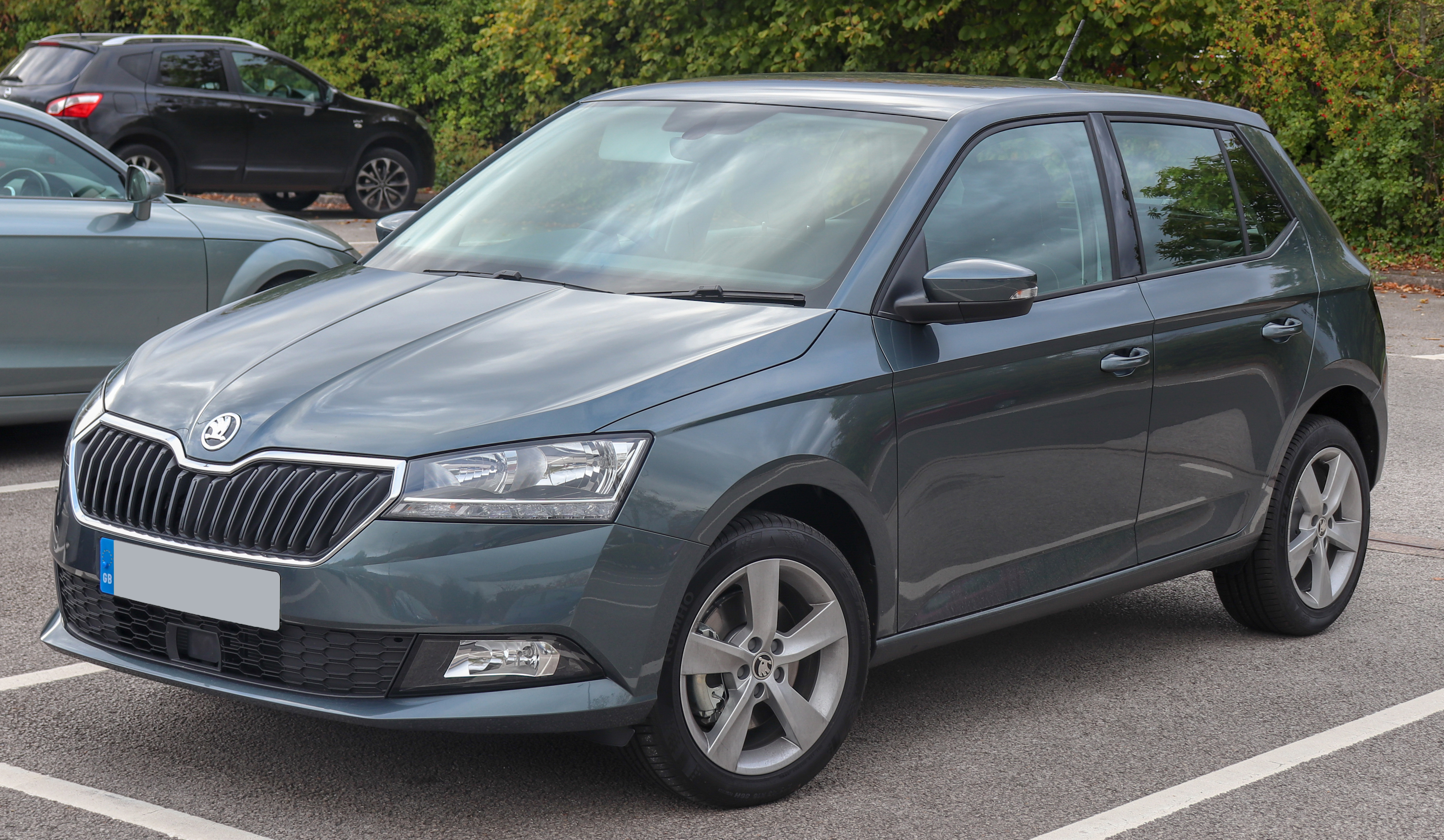 2018 Skoda Fabia facelift 1.0 Front Taken in Warwick